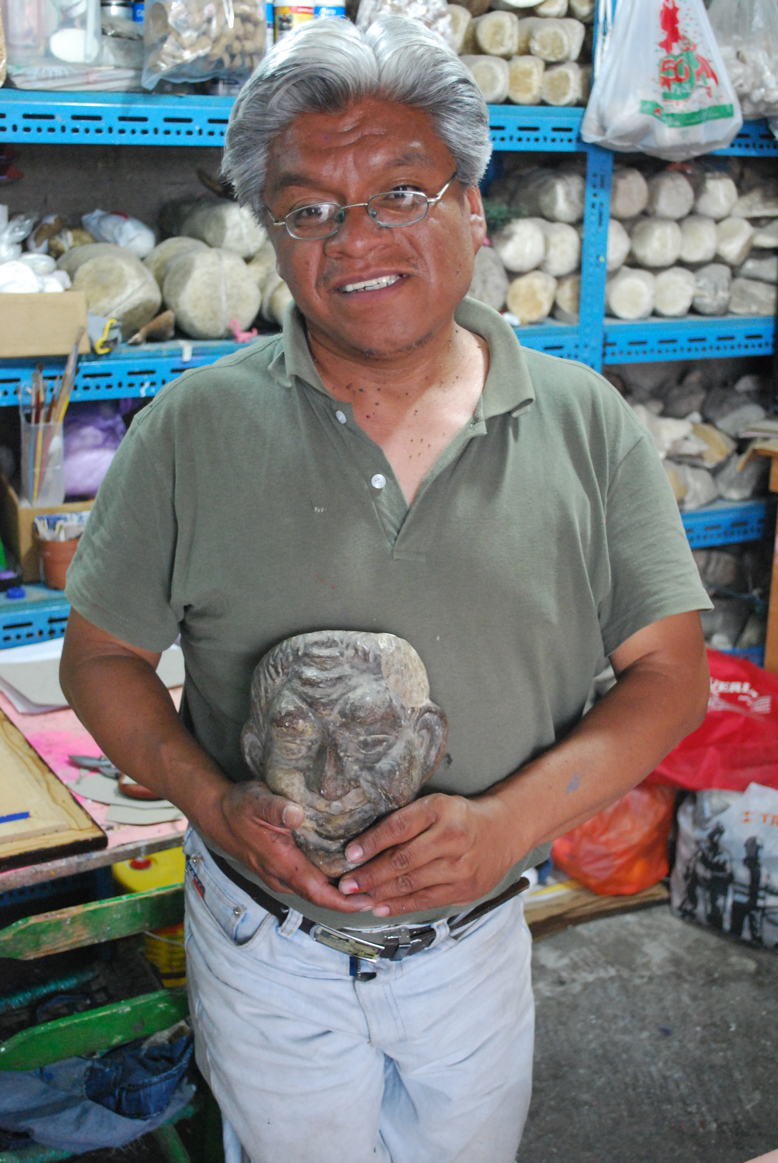 Sotero Lemus at his workshop in Ciudad Neza, State of Mexico